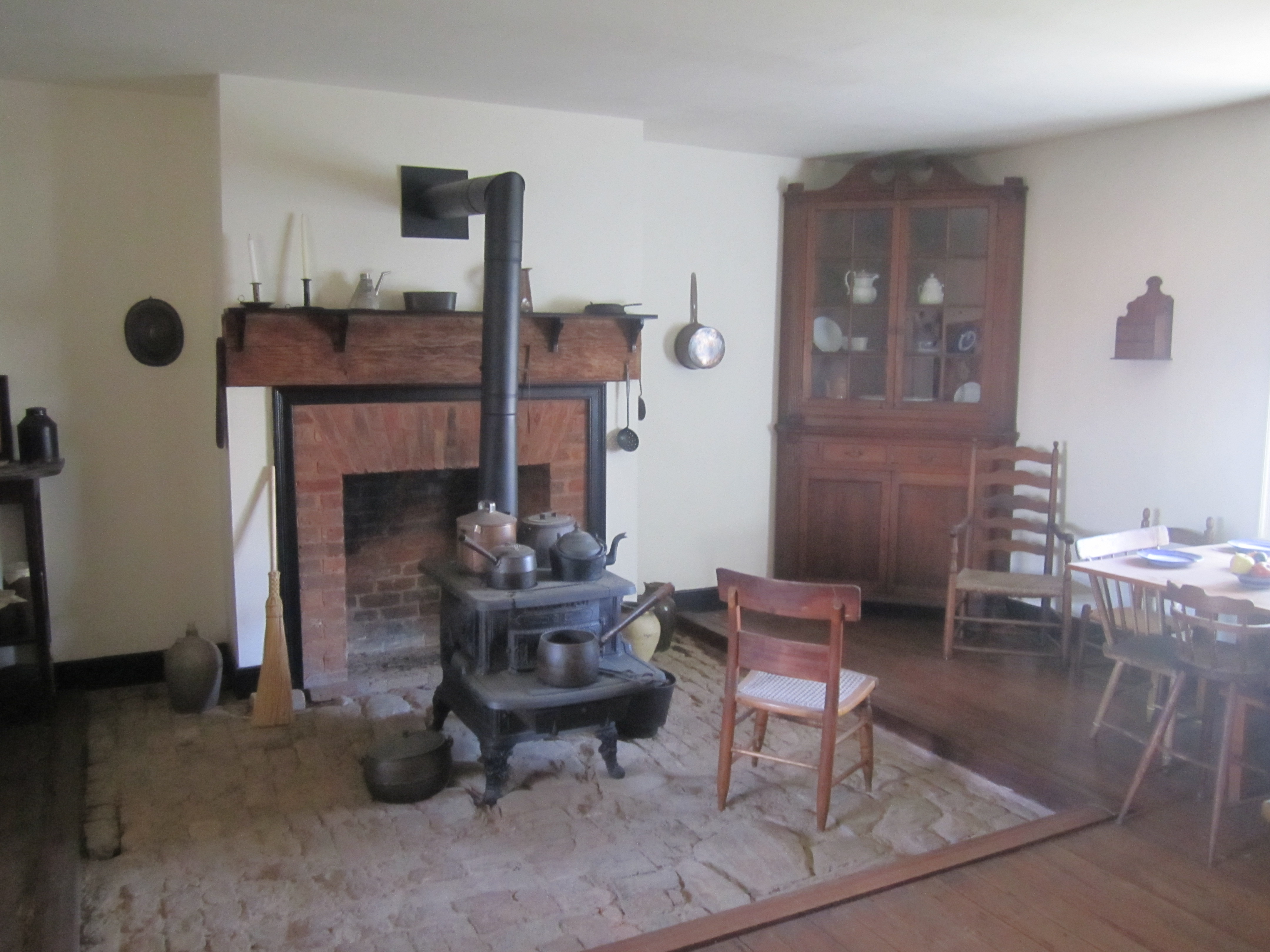 I took photo with Canon camera of kitchen at McLean House at Appomattox Court House National Historical Park in Virginia -- U.S. government; no copyright.